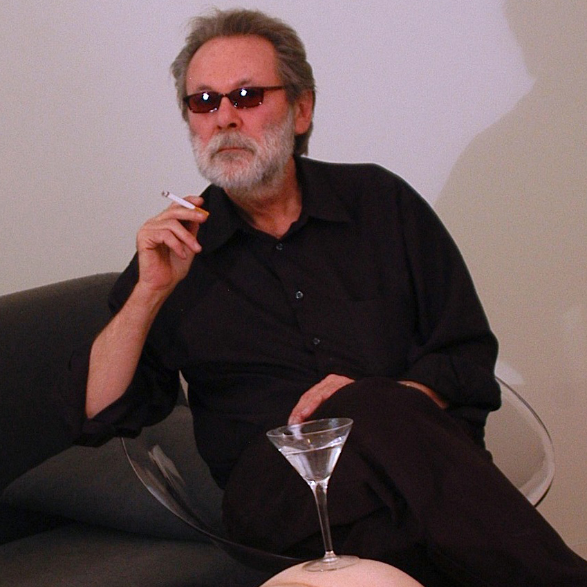 Portrait of Andrew Blake